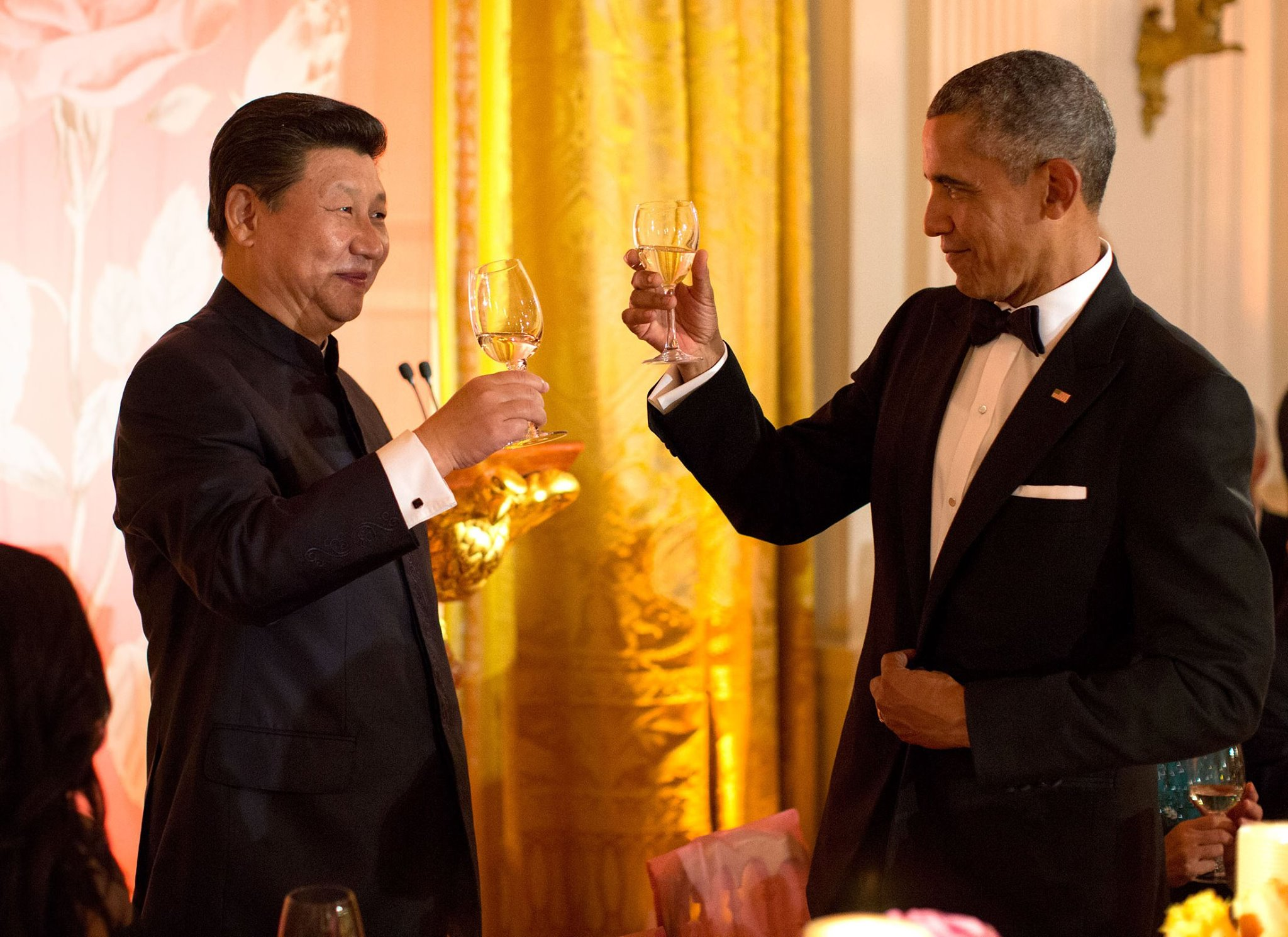 Xi Jinping and Barack Obama toast at a White House state dinner during Xi's 2015 state visit to the United States. Xi wears a Chinese tunic suit while Obama wears black tie.